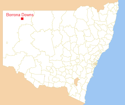 Map showing the location of Borrrona Downs